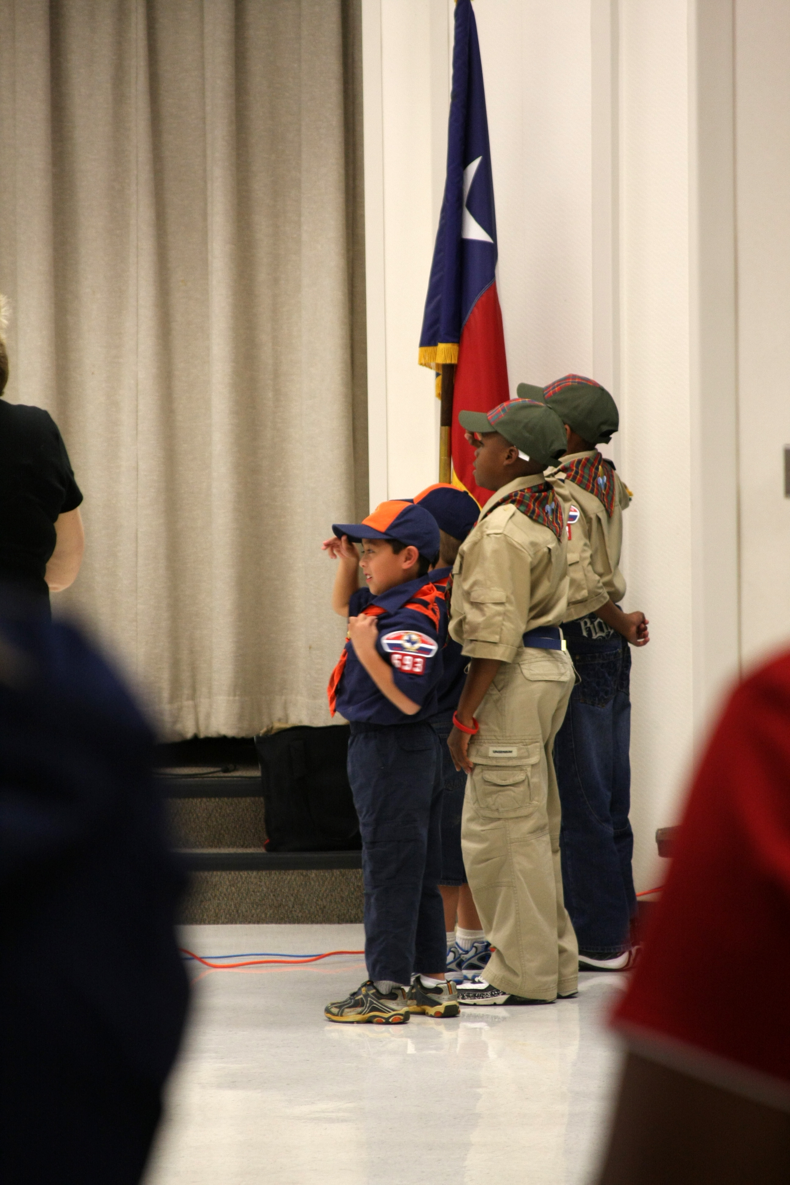 Cub Scouts saluting the American flag after posting the Texas flag